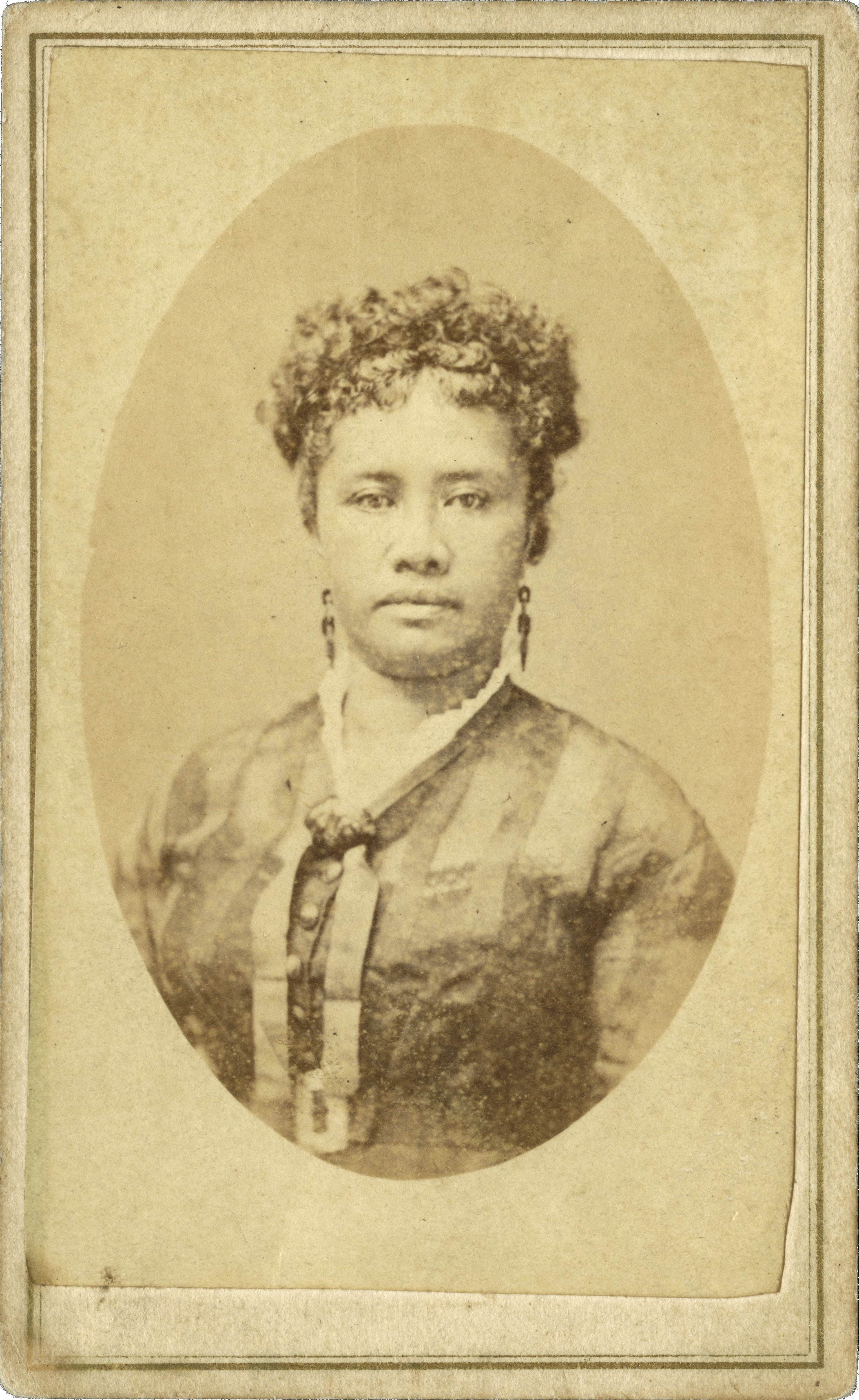 The young Liliuokalani, photograph taken by Menzies Dickson.